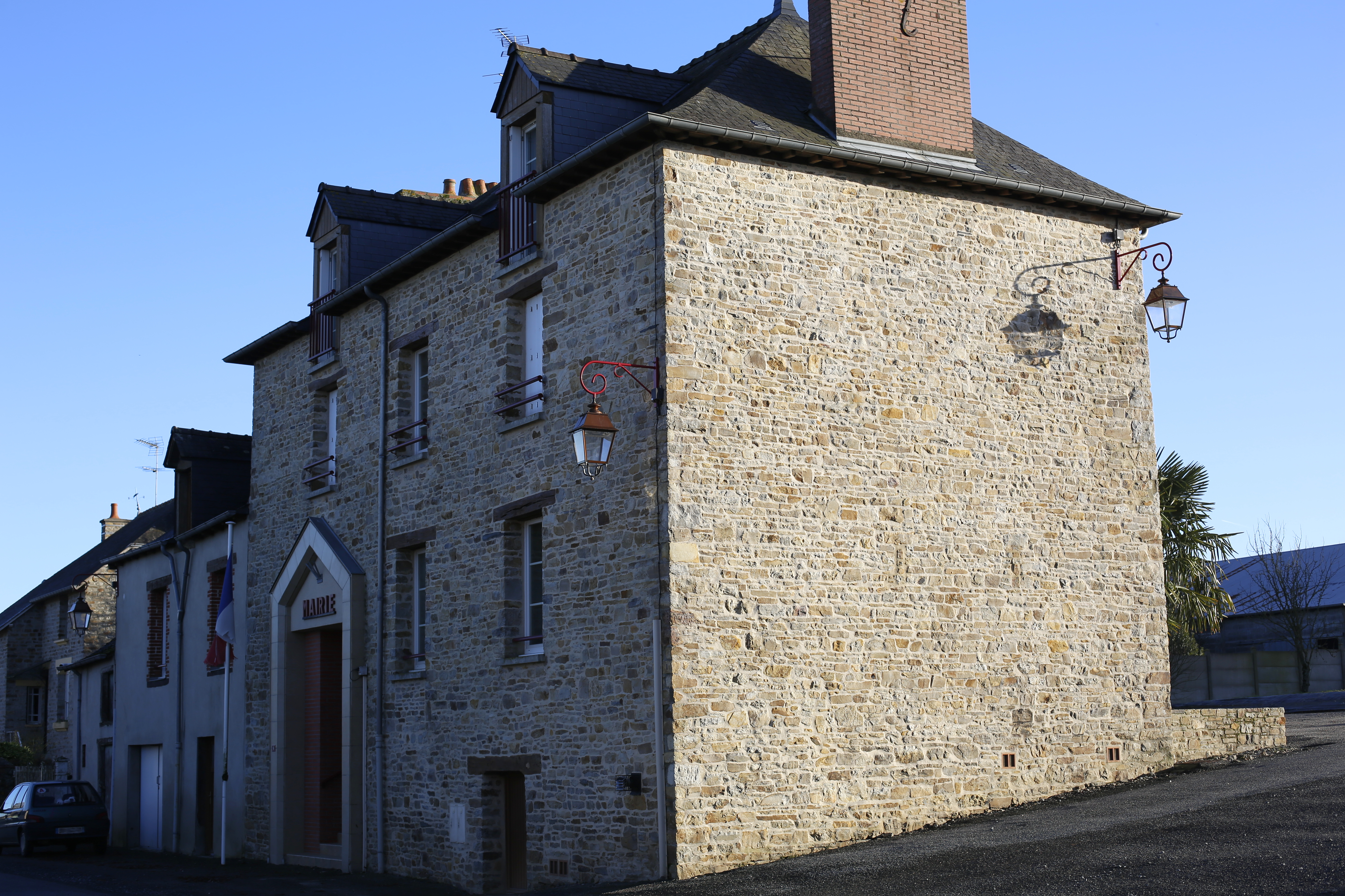 Town hall of Lalleu.